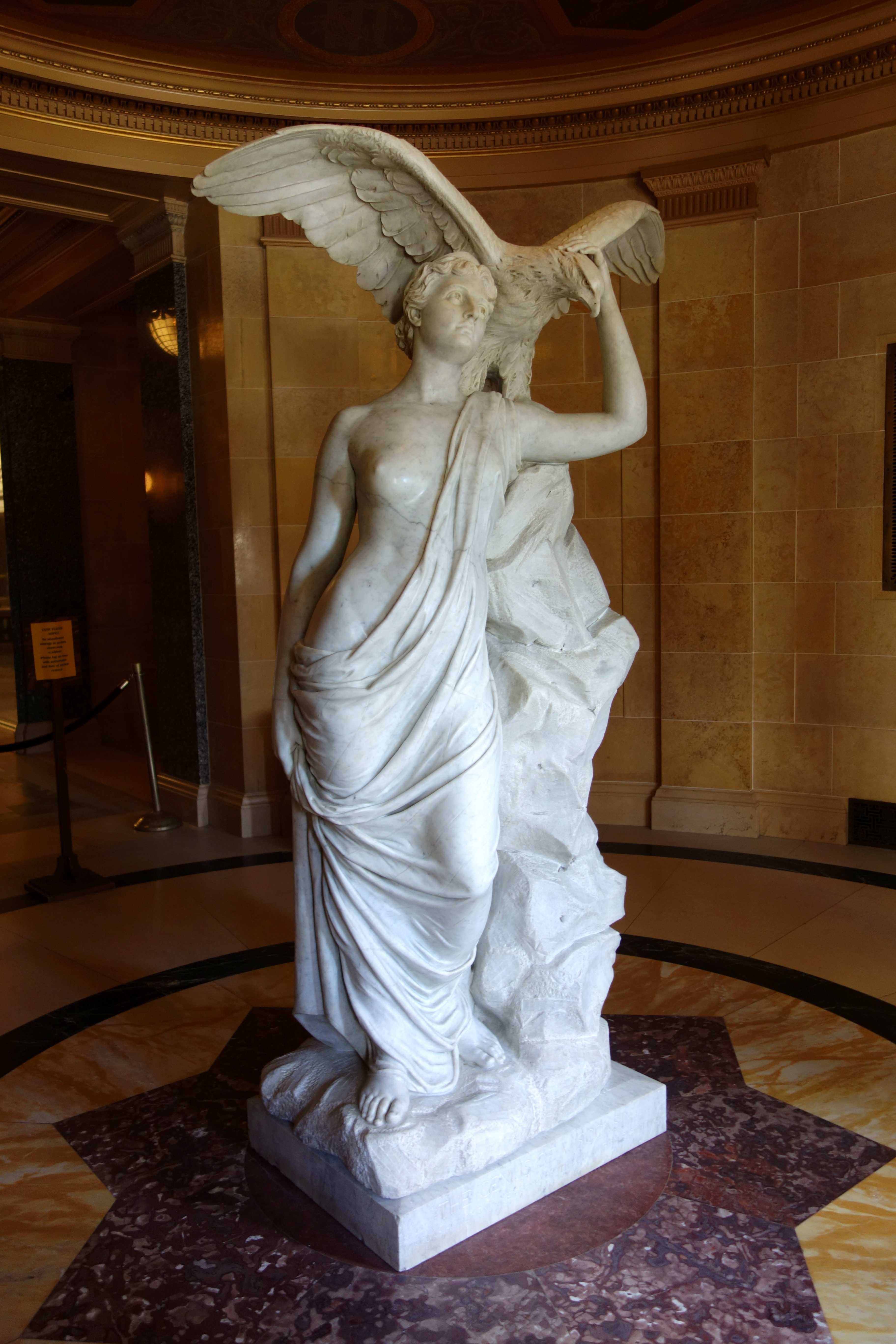 Genius of Wisconsin by Helen Farnsworth Mears, in the Wisconsin State Capitol, Madison, Wisconsin, USA. First exhibited in the Wisconsin Building at the World's Columbian Exposition in 1893. This artwork is in the public domain because the artist died more than 70 years ago.